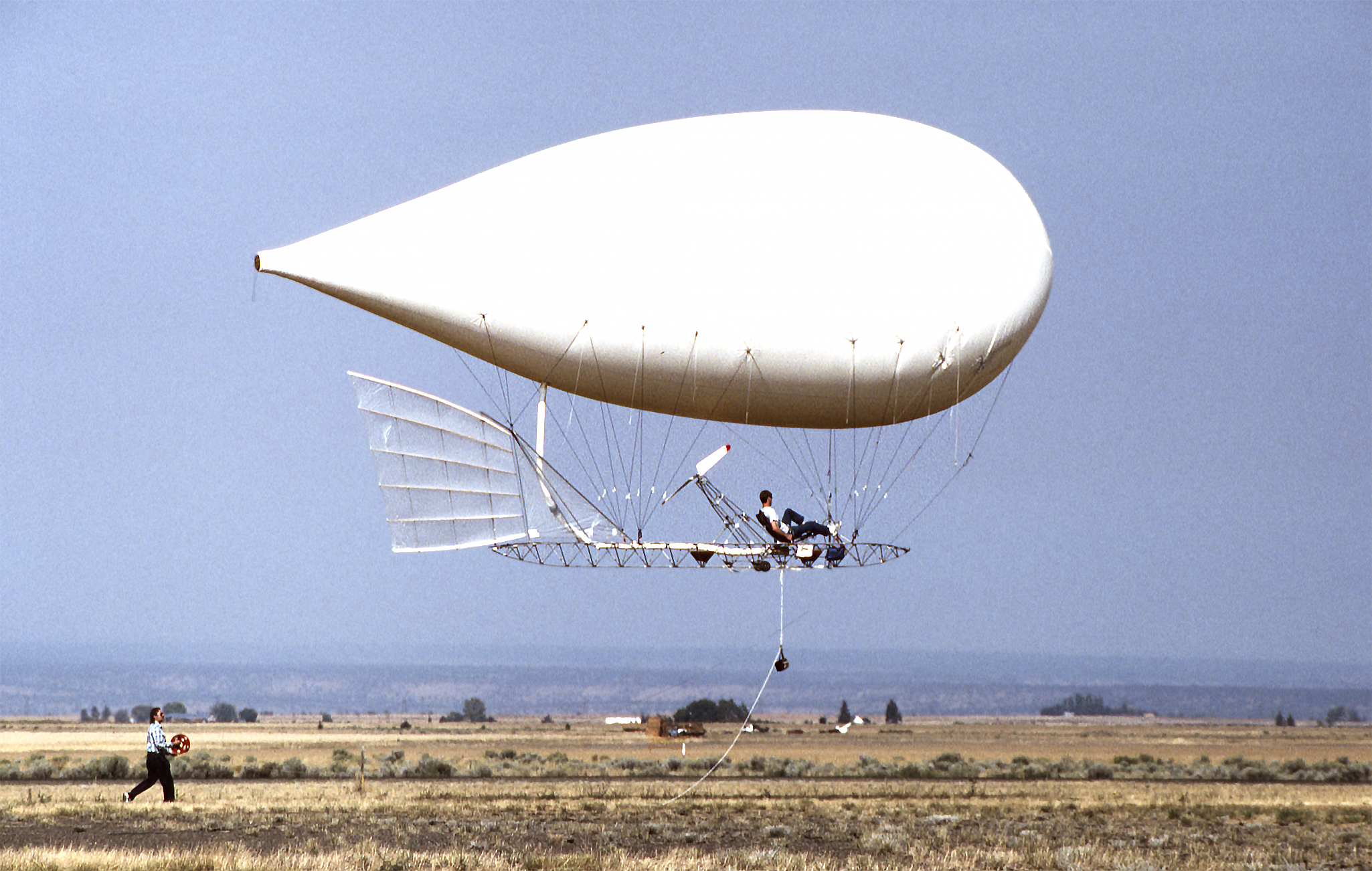 The White Dwarf was built for Leo Gallagher, the one-man act show comedian who used it in the 1980's to make entrances into large arenas. It later sold privately and has been stored in a hangar at the Madras, Oregon, airport. White Dwarf is a helium-filled non-rigid BA-1 class airship that has a pedal-powered propeller to give it forward thrust with ability to move the prop's position to point up or down, allowing for descent or ascent. It was removed for display at the airport's annual Airshow of the Cascades where its owner was allowing anyone with sufficient leg muscles to take the ship up.